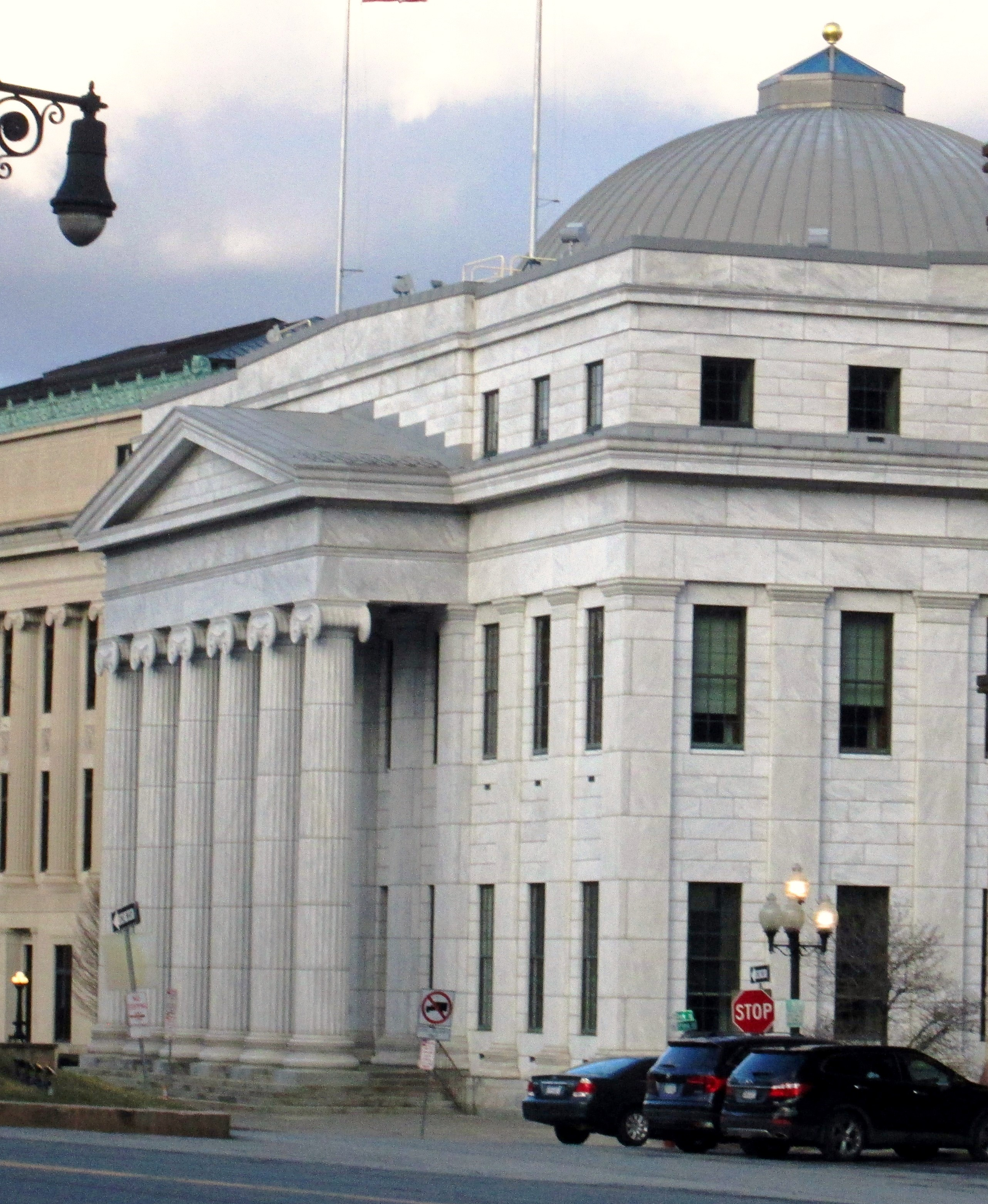 The New York Court of Appeals Building, located at 20 Eagle Street at the corner of Pine Street in Albany, New York, is a stone Greek Revival building built in 1842 and designed by Henry Rector. In 1971 it was listed on the National Register of Historic Places. Seven years later it was included as a contributing property when the Lafayette Park Historic District was listed on the Register. The Court of Appeals is New York State's highest court.